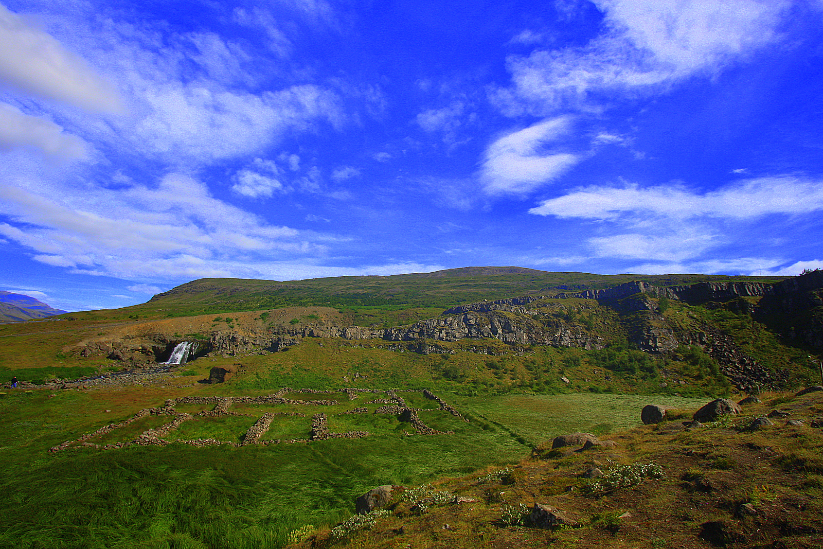 From the most beautiful place in the world, Iceland.